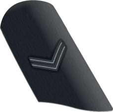 RAF Corporal